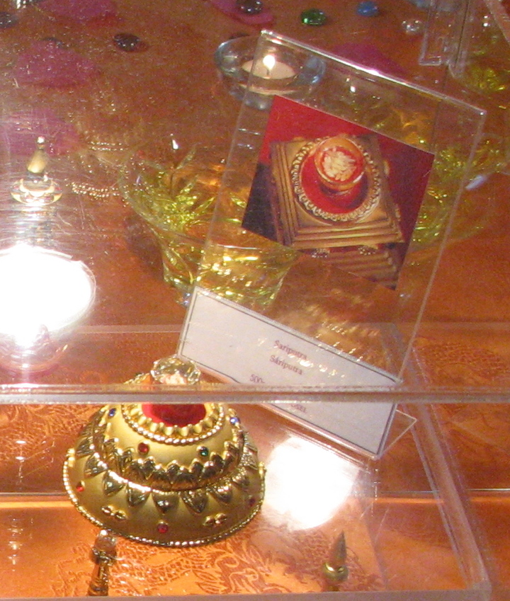 Relics of Sariputta exhibited on 19. - 22. October 2006 in the Prague church of Saint John the Baptist Na Prádle.